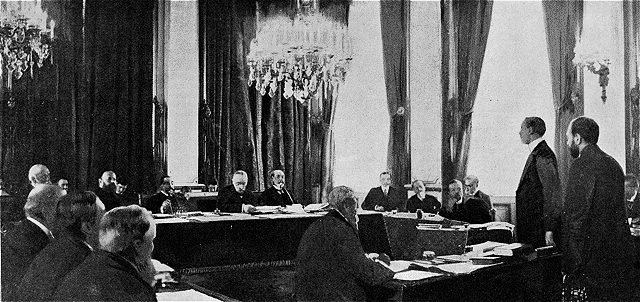 Photograph showing the 25 January 1905 session of the International Commission of Inquiry on the Dogger Bank Incident. French magazine L'Illustration, 28 January 1905.